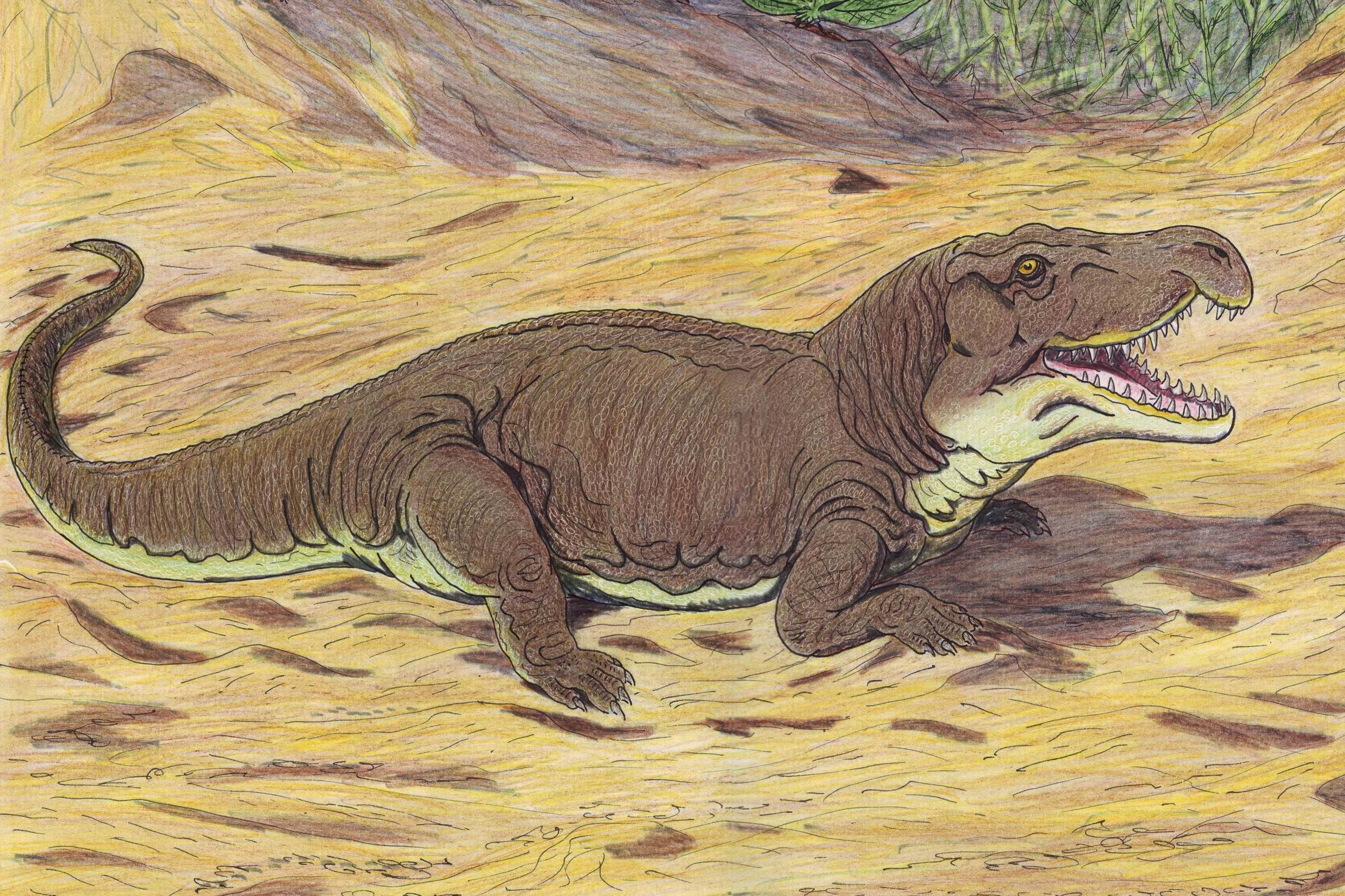 Garjainia prima from Early Triassic of Orenburg region